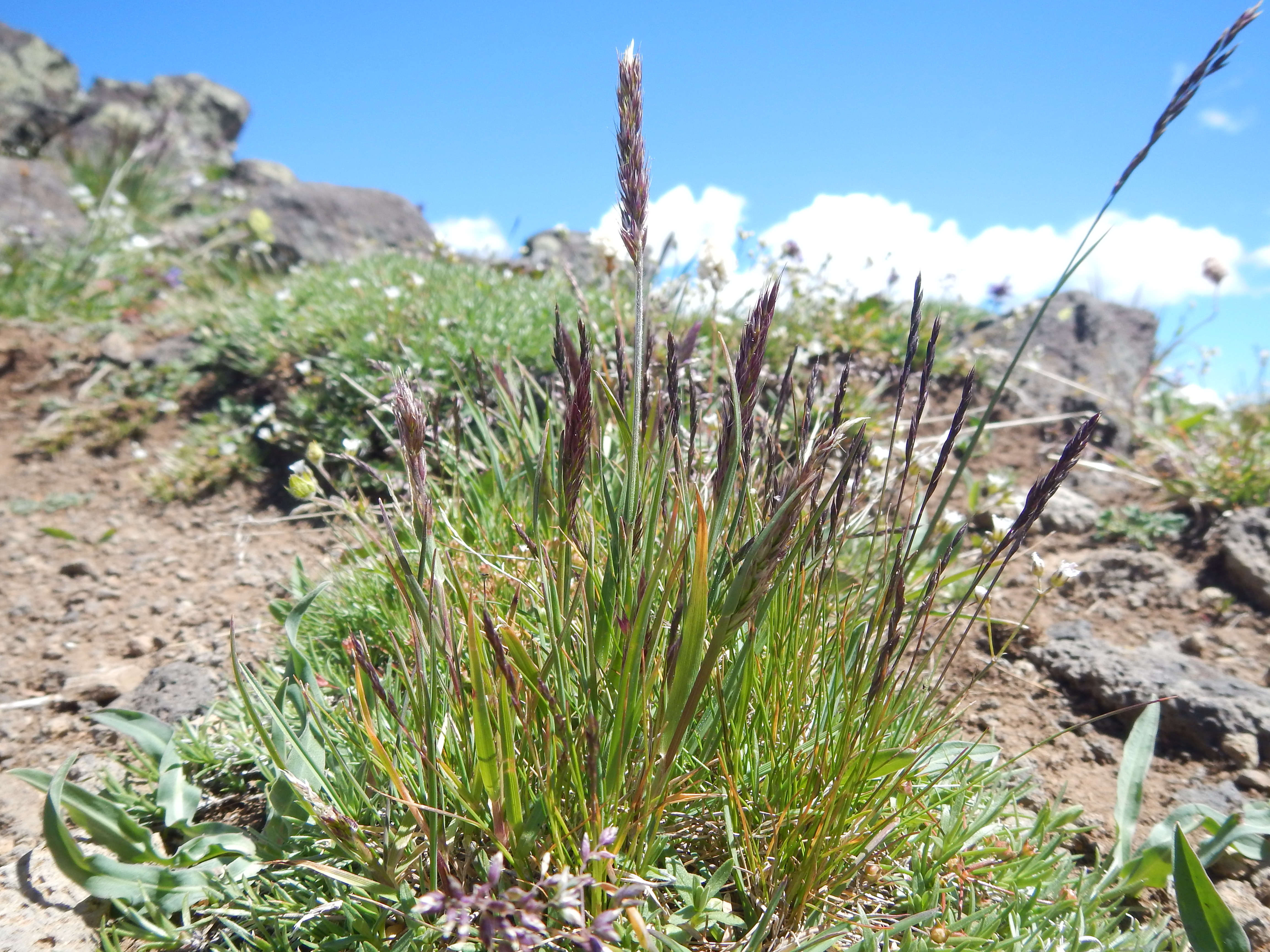 Lemmas awned from the upper half, a hairy rachilla that disarticulates with the adjacent floret (and is thus tucked into the palea groove), bunched habit of open montane settings, and velvety hairy stems and leaves are diagnostic of spike Trisetum.